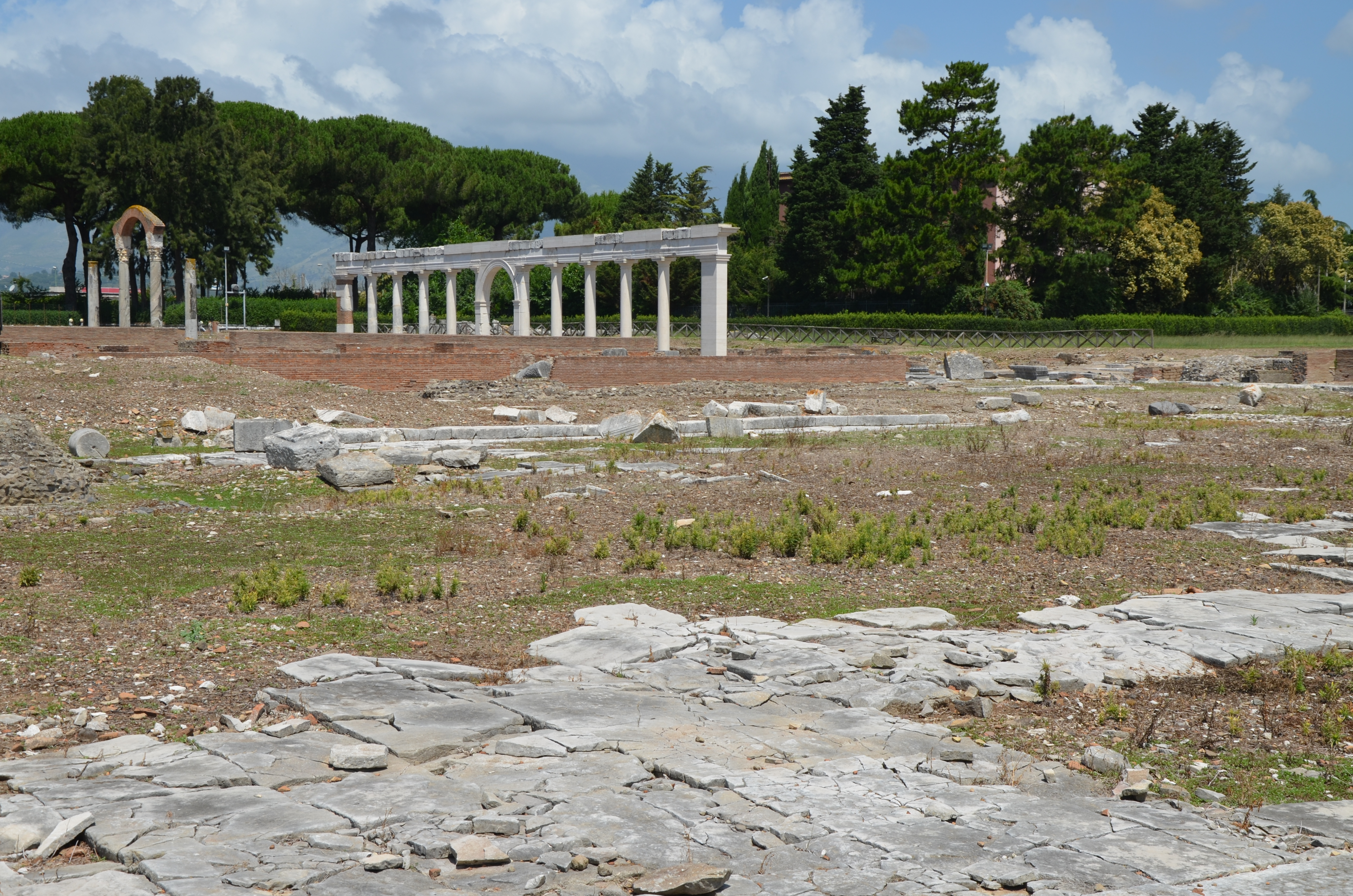 Ruins of the Imperial forum, Minturnae, Minturno, Italy